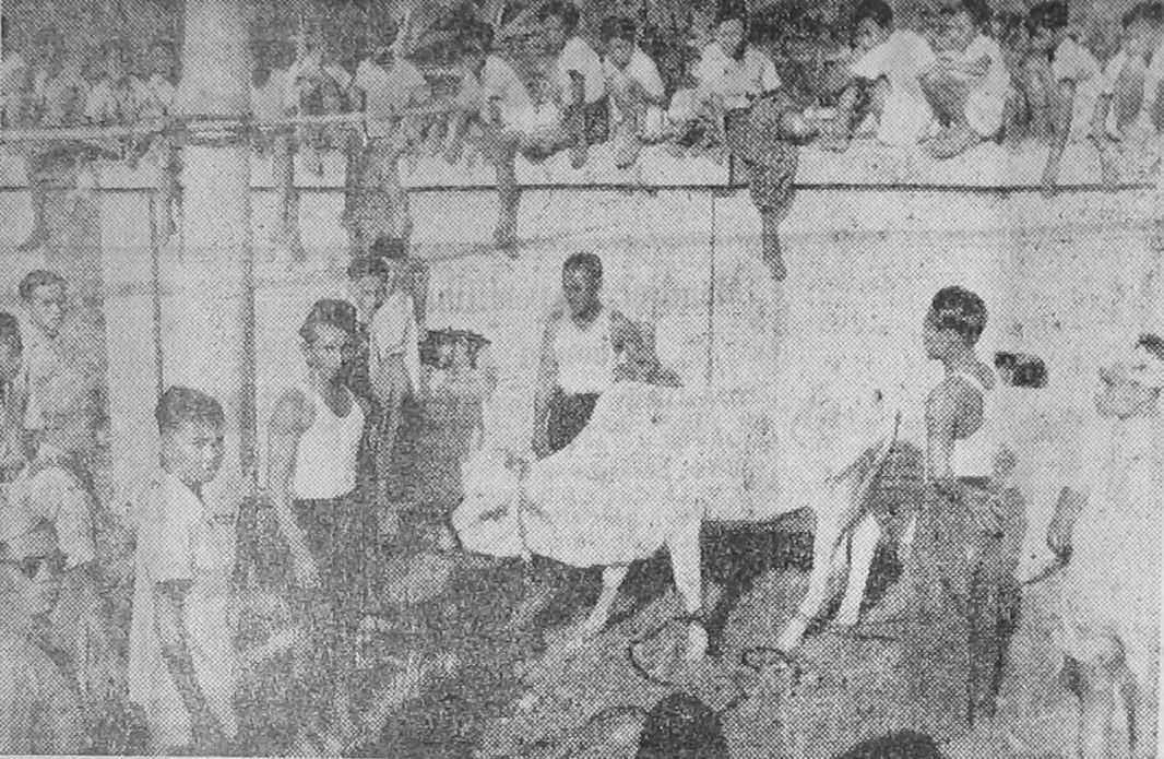 People in Indonesia preparing animal sacrifices for Eid al-Adha